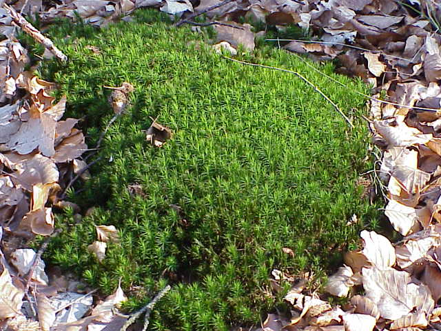 Species: Polytrichum formosum Family: Image No. 4